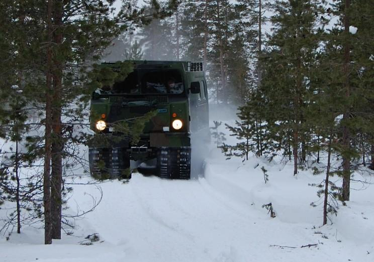 Bv 206, Swedish Home Guard